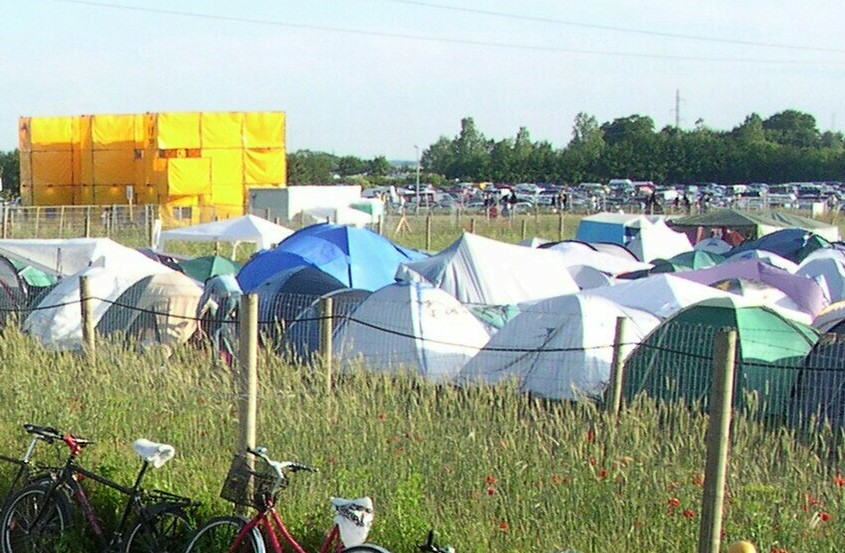 Roskilde Festival Camping area East